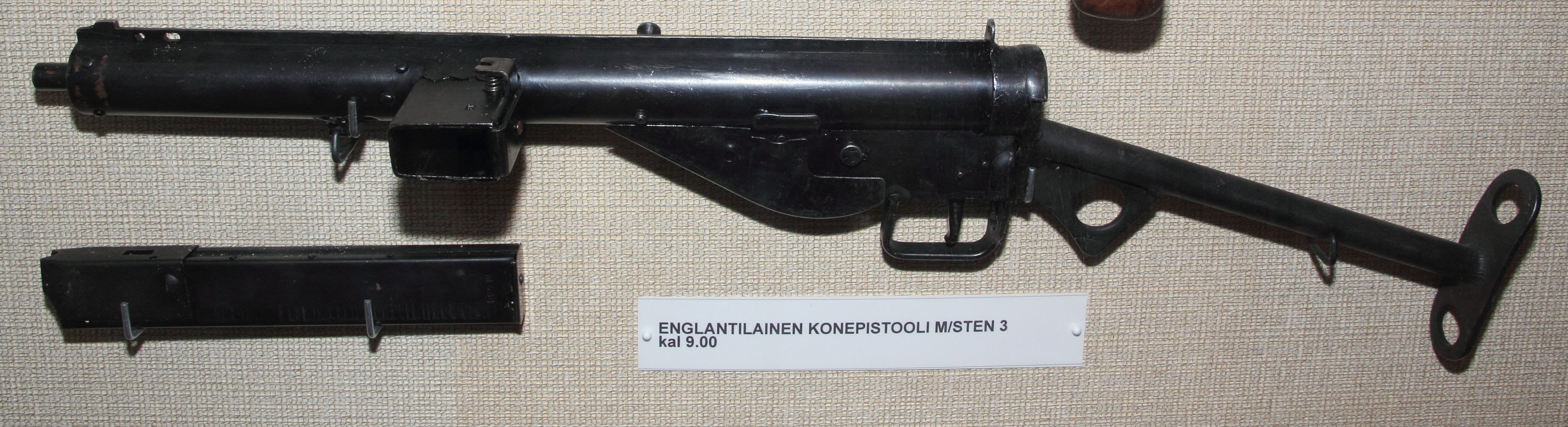 9 mm Sten Mk III submachine gun in Imatra Border Museum.